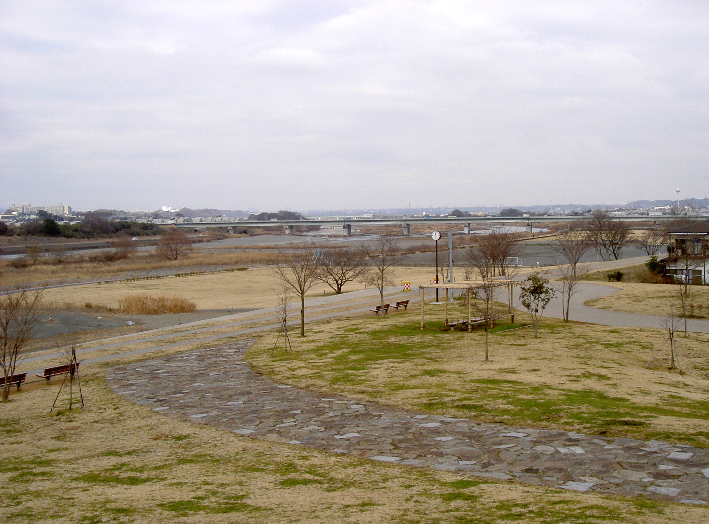 Sagami Sansen Koen, a park in Ebina, Kanagawa, Japan.